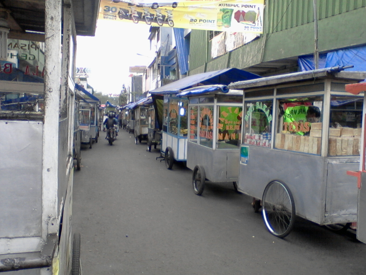 It is one of tradisional food center in Garut city